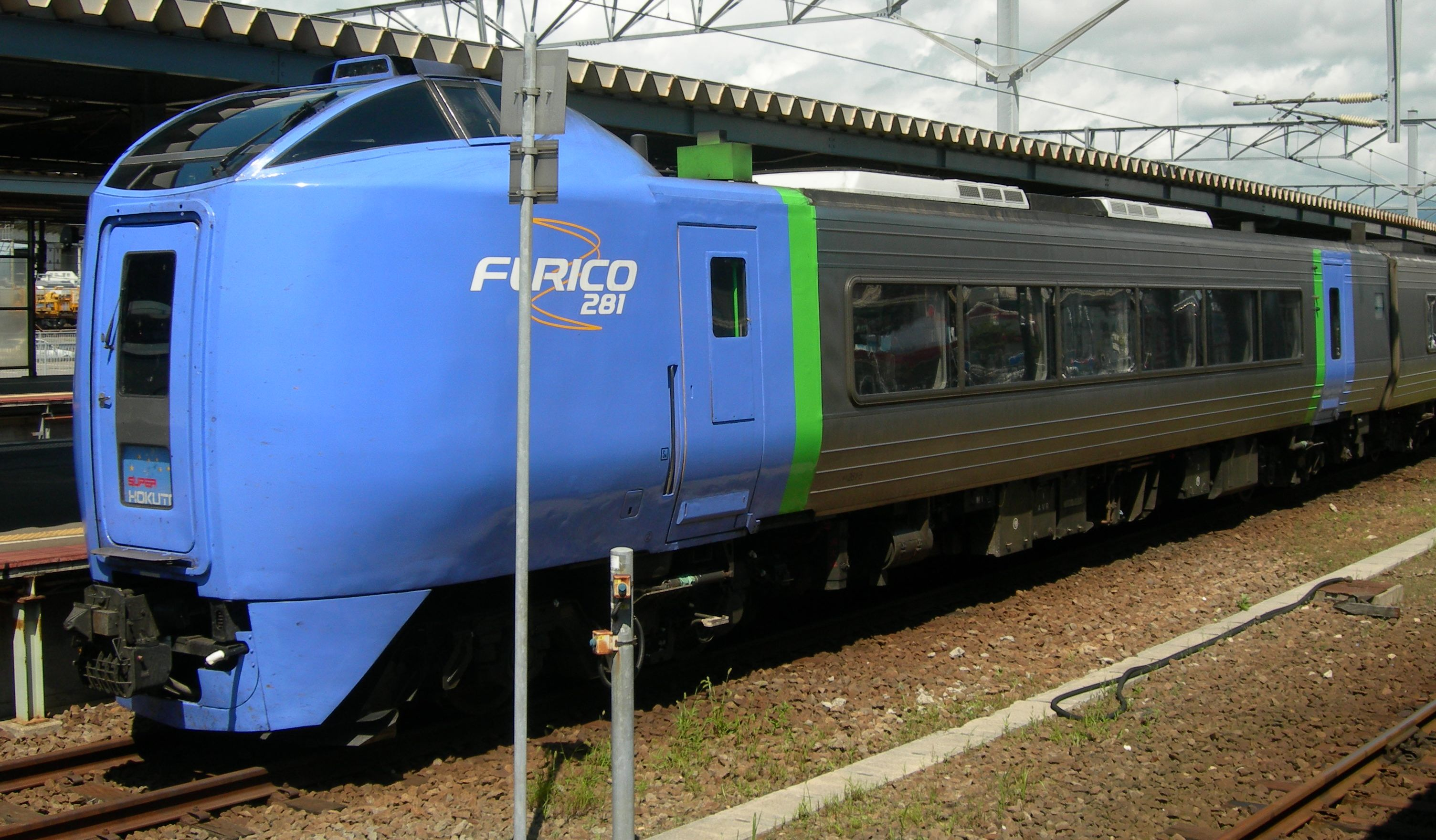 JR Hokkaido KiHa 281 series DMU car KiHa 281-5 at Hakodate Station on a Super Hokuto service